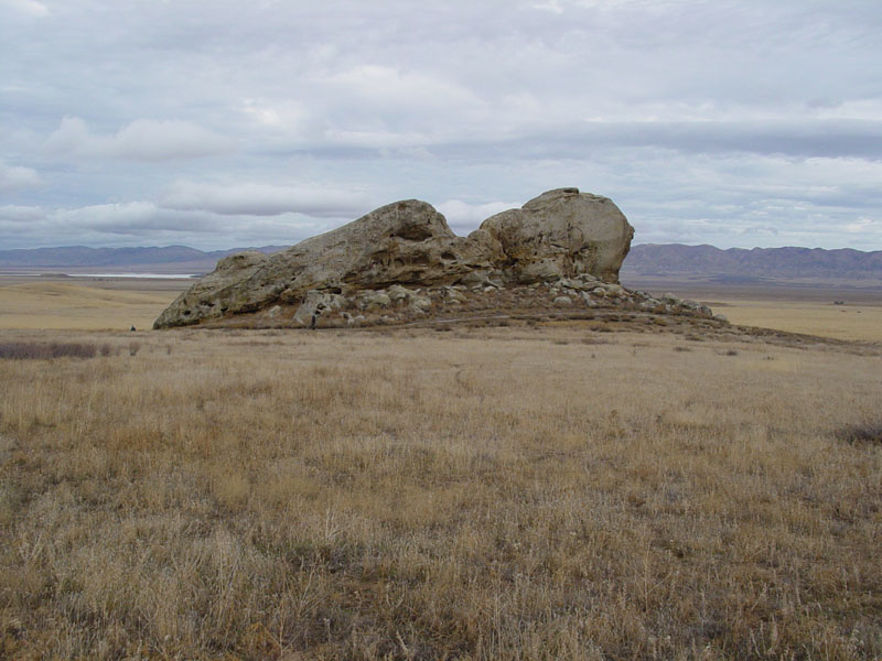 Carrizo Plain National Monument, California. Painted Rock in the plain with Soda Lake in the left background